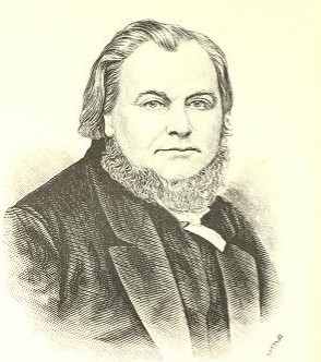 Portrait of Charles Vince (1823–1874), English Baptist minister in Birmingham.